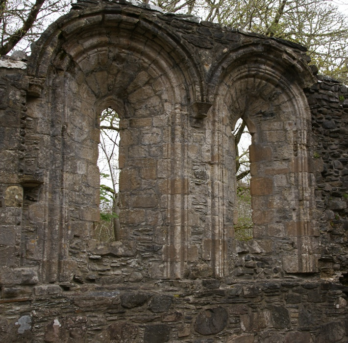 Dunstaffnage Chapel, Argyll and Bute, Scotland - twin lancet windows